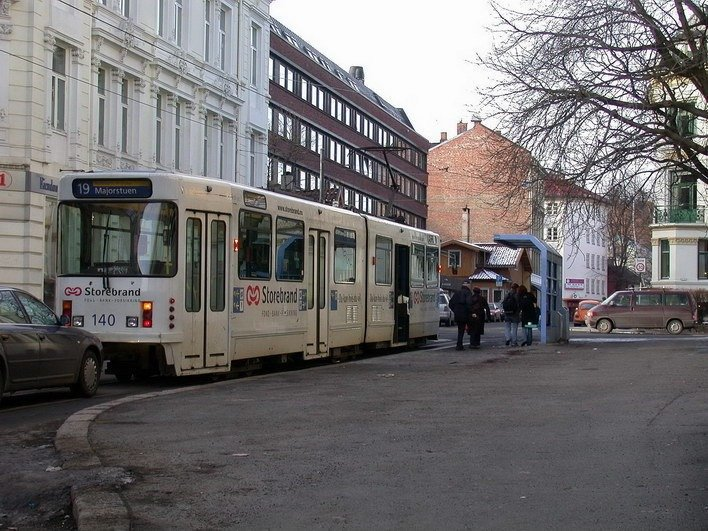 SL79 tram no. 140 at Briskeby.